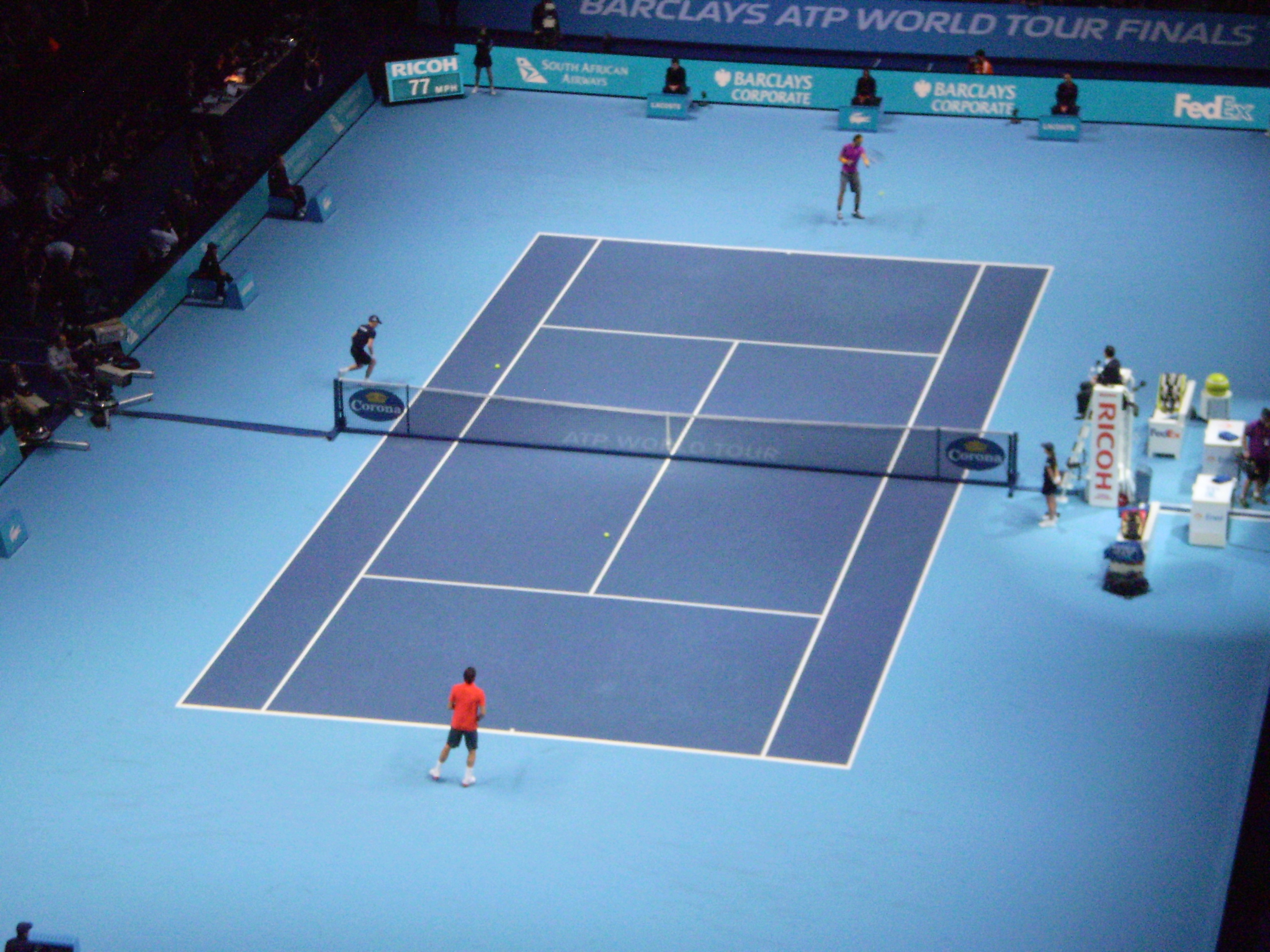 Final between Rafael Nadal and Roger Federer at 2010 ATP World Tour Finals.